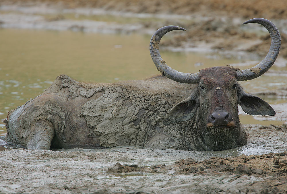 There's no better way to cope with the heat of the day!